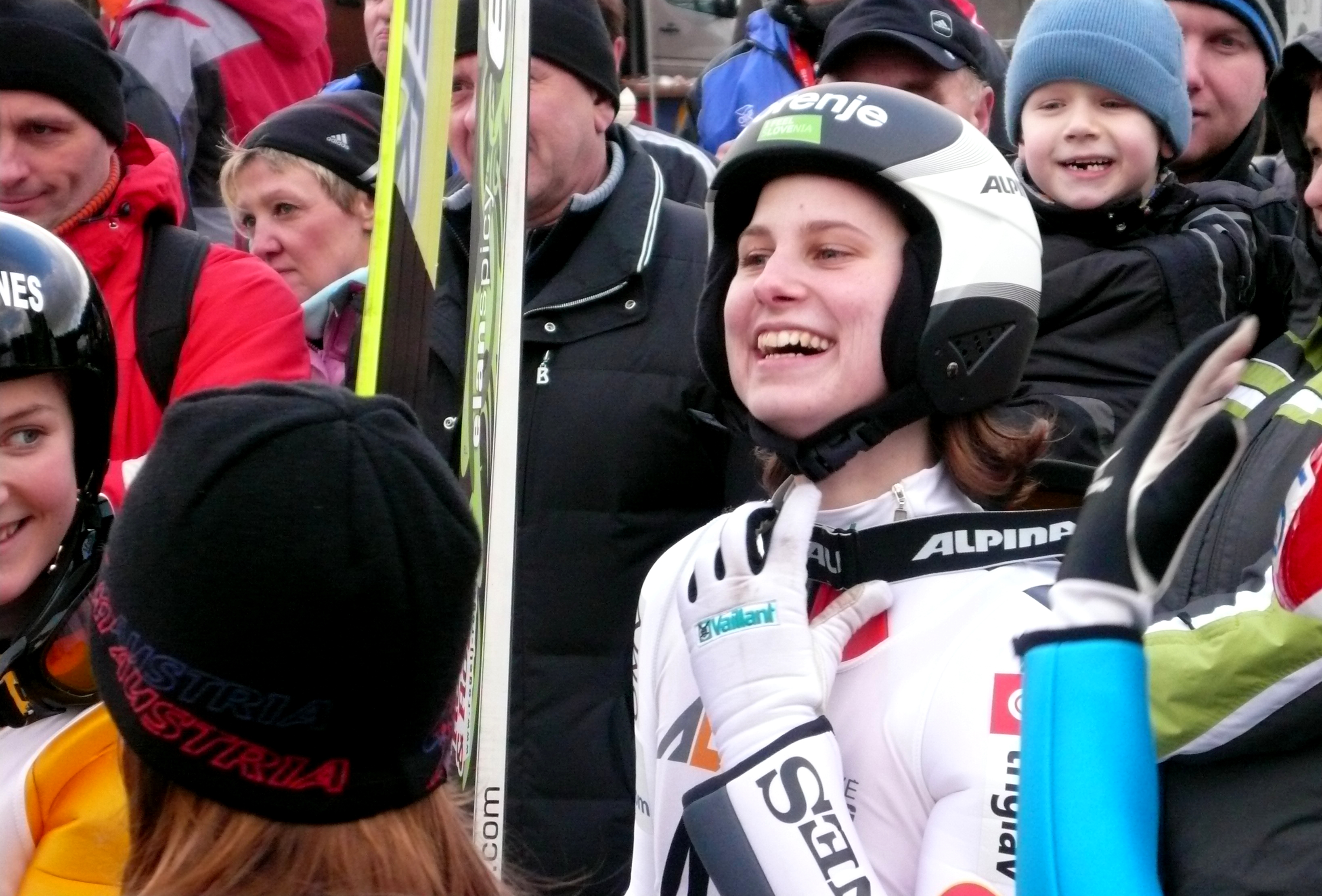 Eva Logar